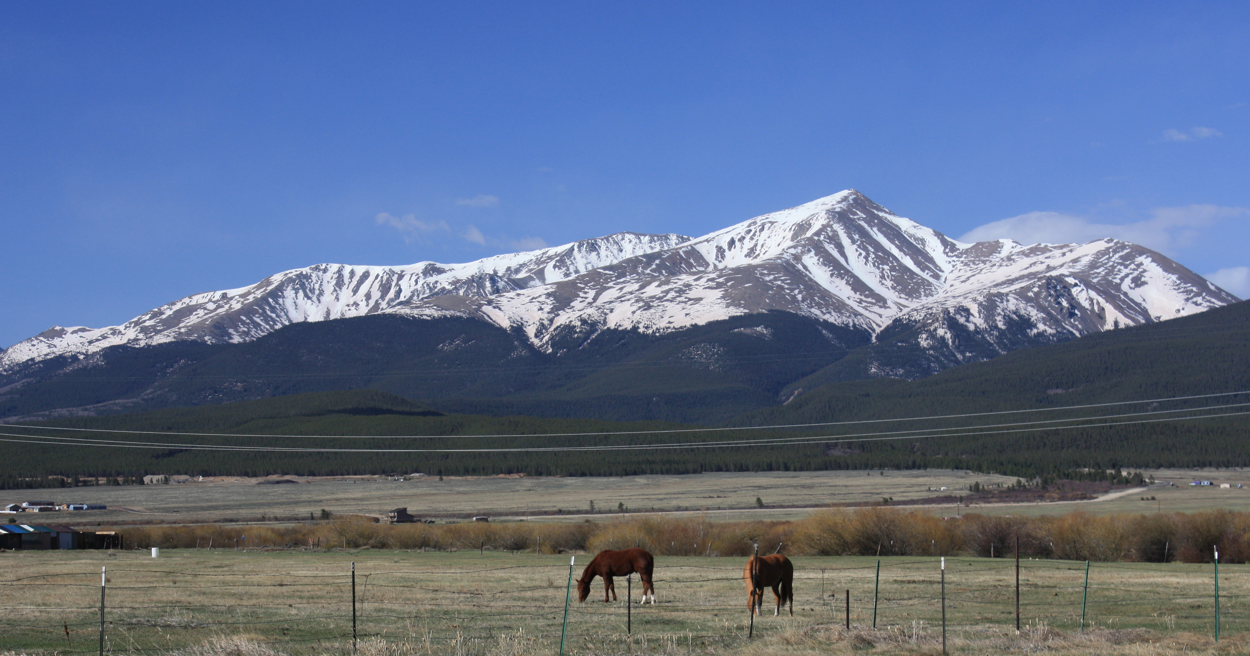 Mount Elbert and horses, taken from the Lake Fork Mobile Home Park near C-300, about five miles SW of Leadville. In addition to being the highest peak in the Rocky Mountains of North America, Mount Elbert (14,440') is also the second-highest peak in the continental U.S., behind California's Mount Whitney (14,505').